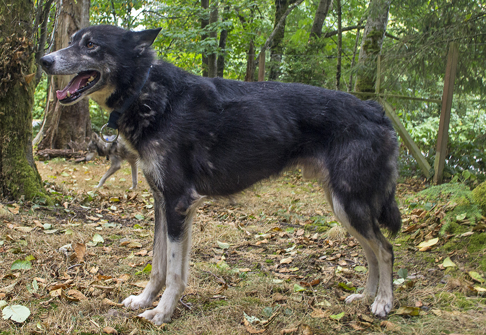 Five year-old Alaskan Husky out of Doug Swingley lines.